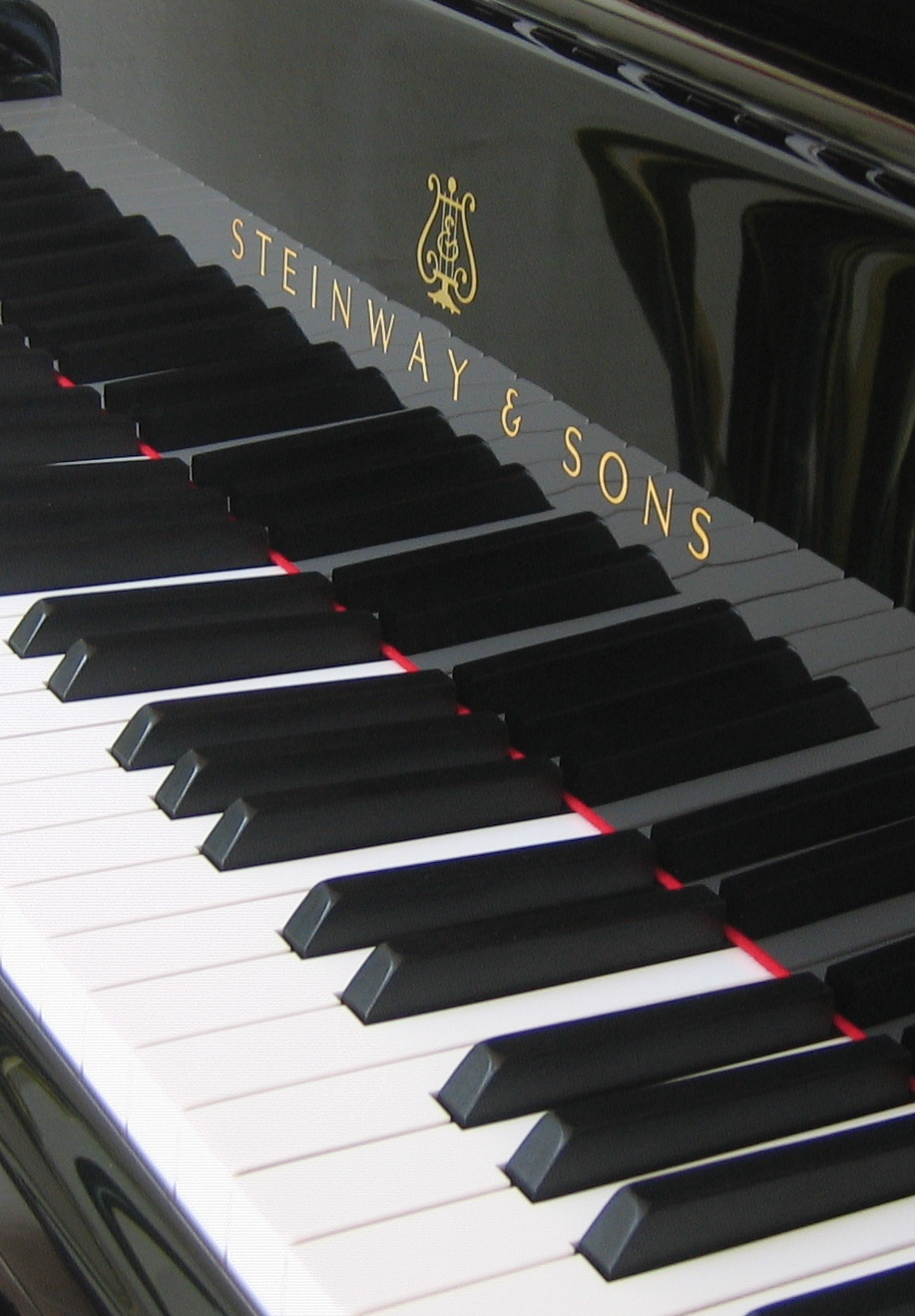 Keyboard of a grand piano manufactured by the Hamburg (Germany) factory of Steinway & Sons.